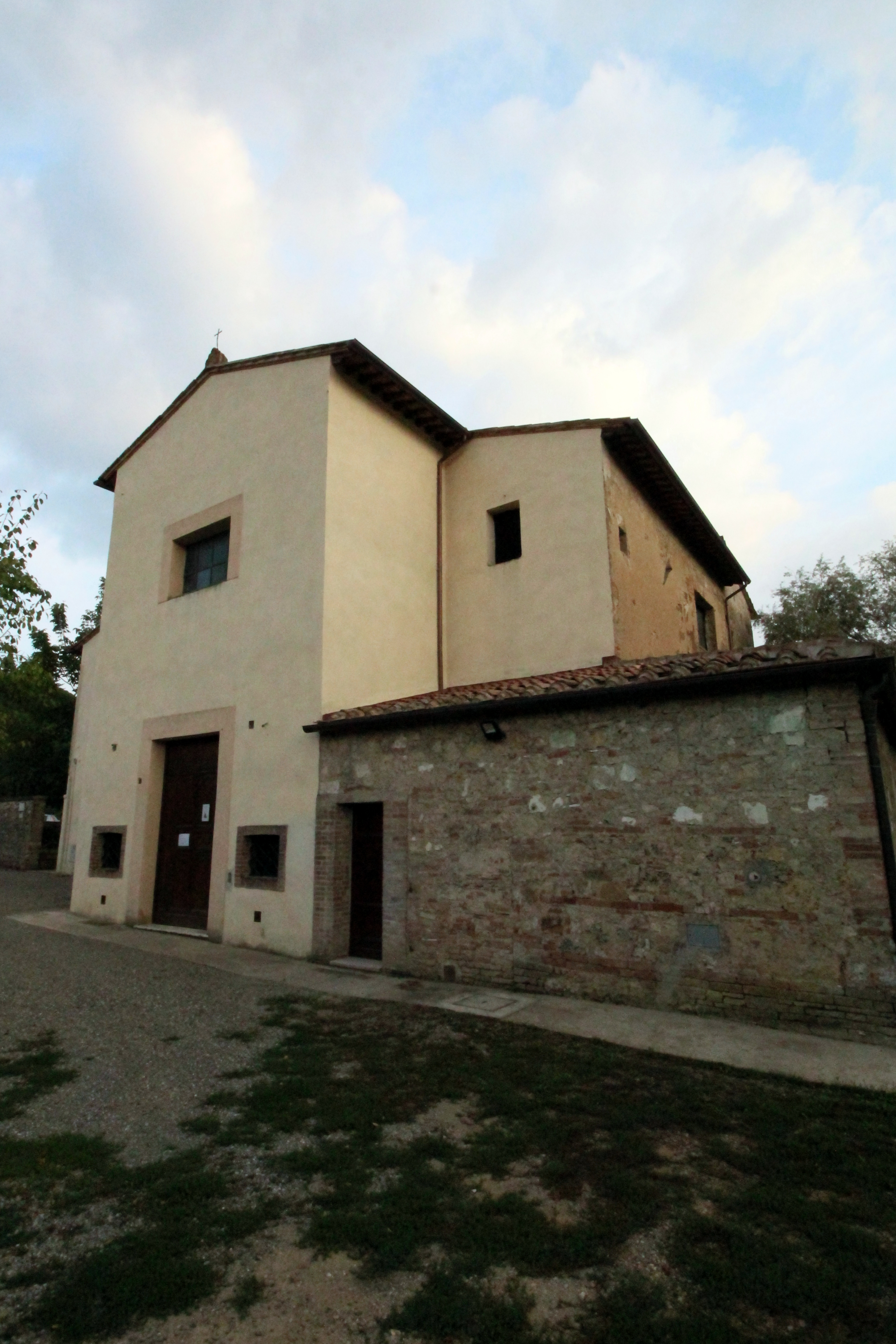 Church Santa Maria a Tressa, Church in Siena near Colonna San Marco outside the walls, Province of Siena, Tuscany, Italy